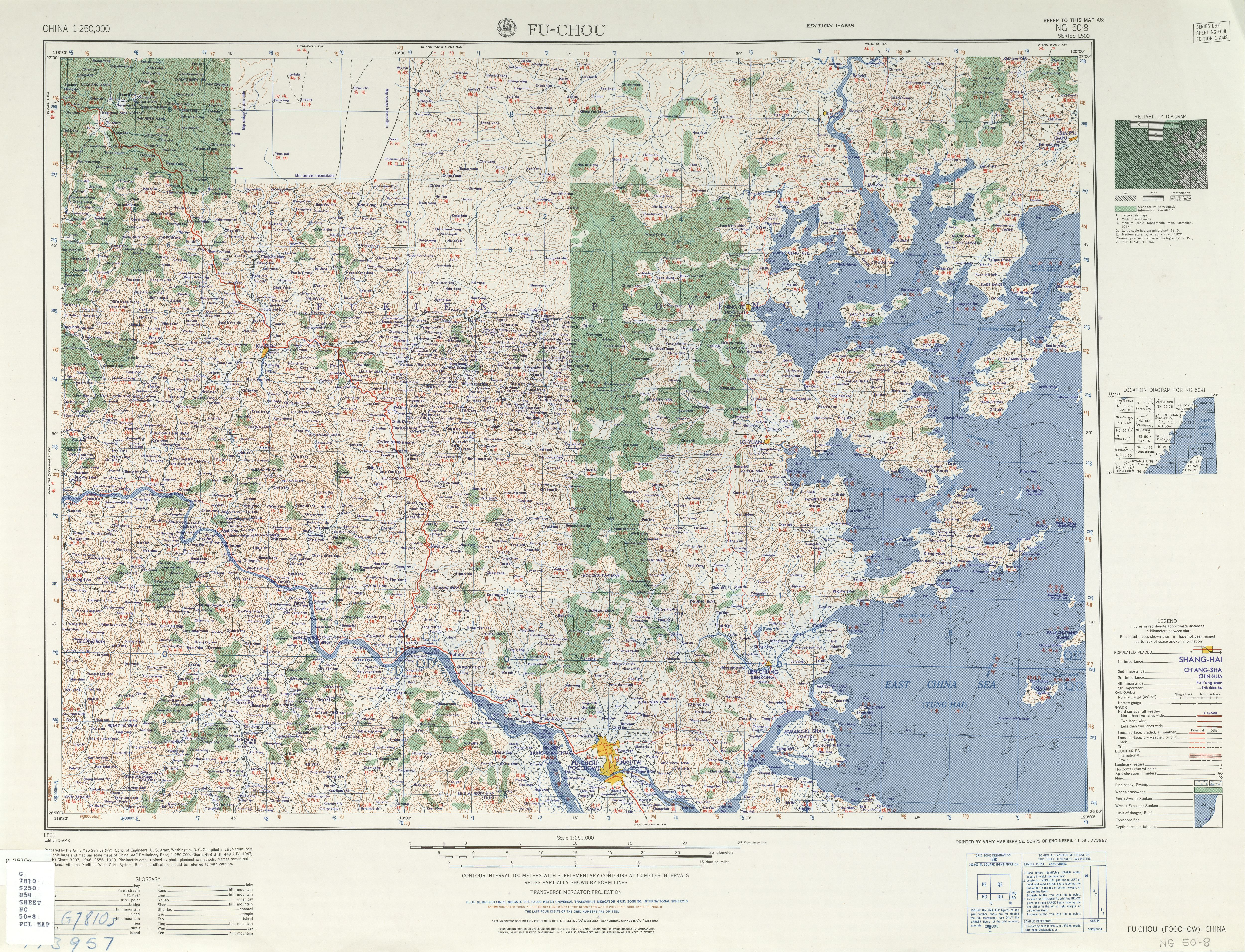 Map of Fuzhou (Fu-chou) , Fujian including Nankan Township (Matsu Island) and Beigan Township (Peikantang), Lienchiang County (the Matsu Islands), Taiwan (ROC) 1954